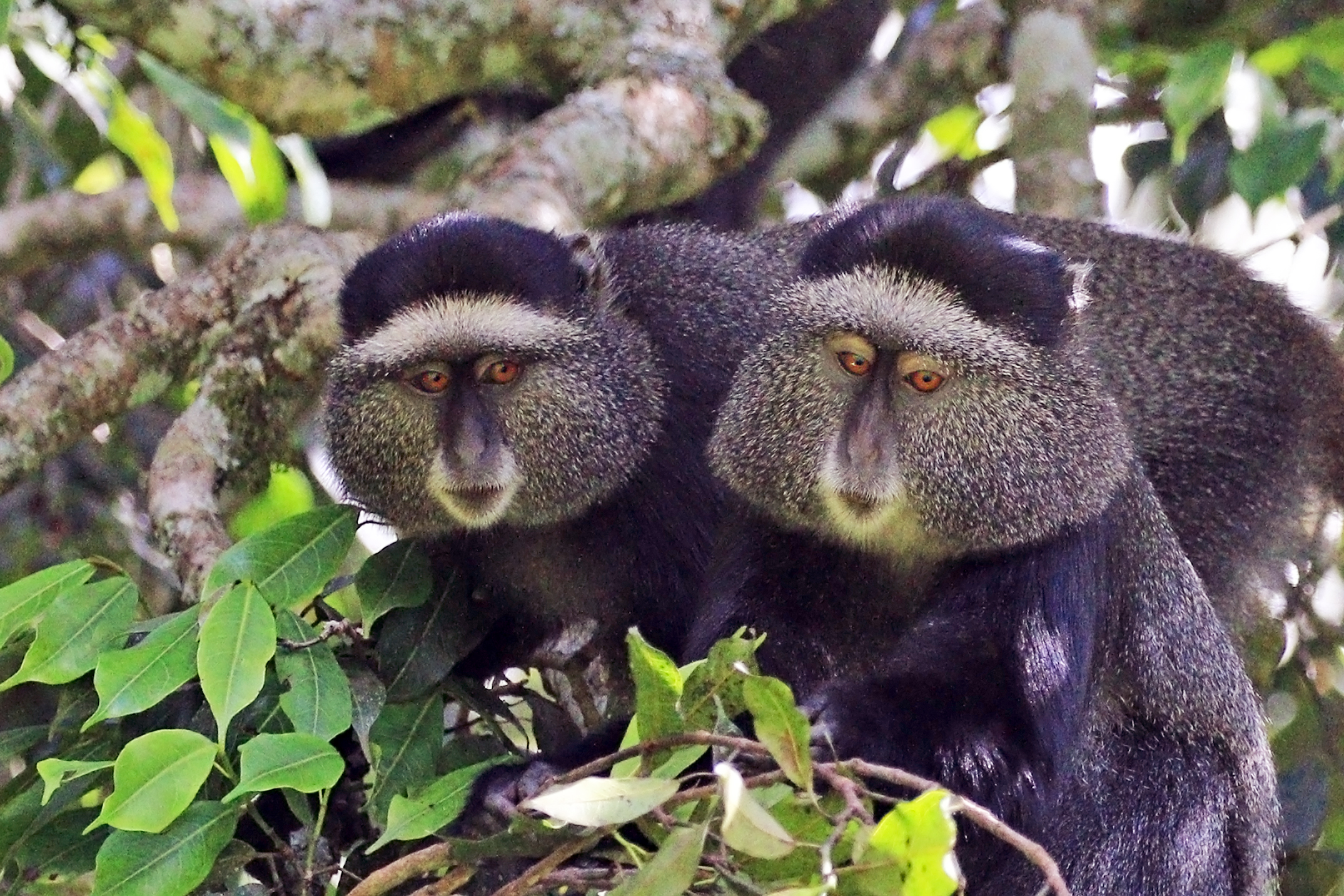 Blue monkeys (Cercopithecus mitis stuhlmanni), Kakamega Forest, Kenya